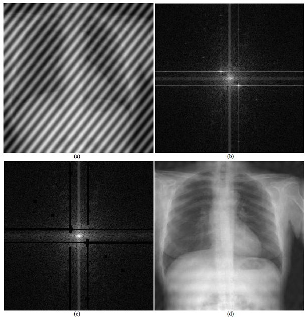 The use of the FT and its inverse to remove unwarranted information from an image. (a) An image obtained by adding the sine wave and chest radiography images together with its equivalent Fourier spectrum in (b). The unwanted interference caused by the sinusoidal brightness pattern can be removed by editing the spatial frequency information as shown by the blackened areas in (c). The inverse FT then recovers the original chest image largely undistorted as shown in (d). Further refinement of the editing process would allow complete restoration of the image quality, in theory.